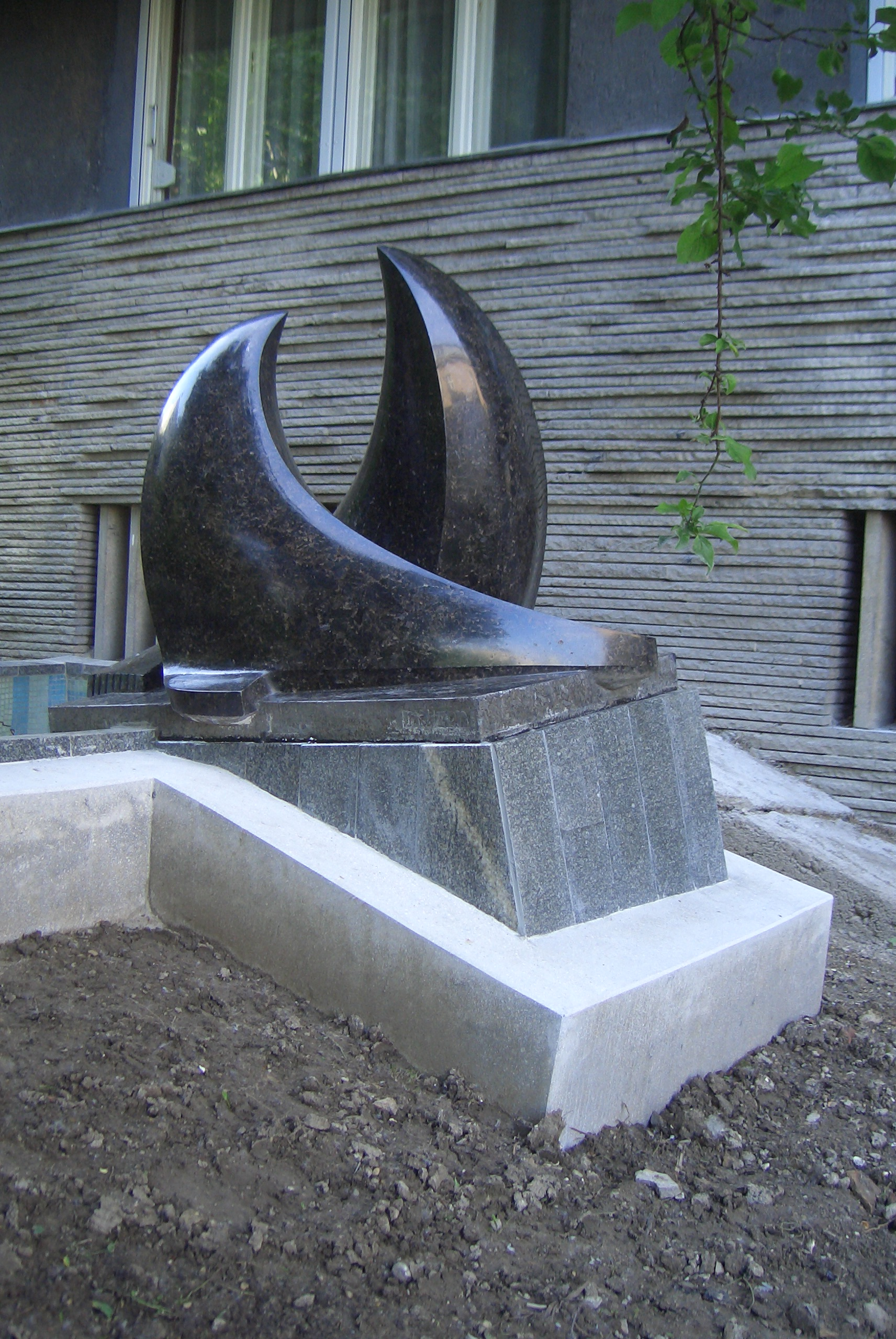 Phoca sculpture by Frigyes Maczon in Budapest 1st district (Orvos_lépcső / Orvos stairs)